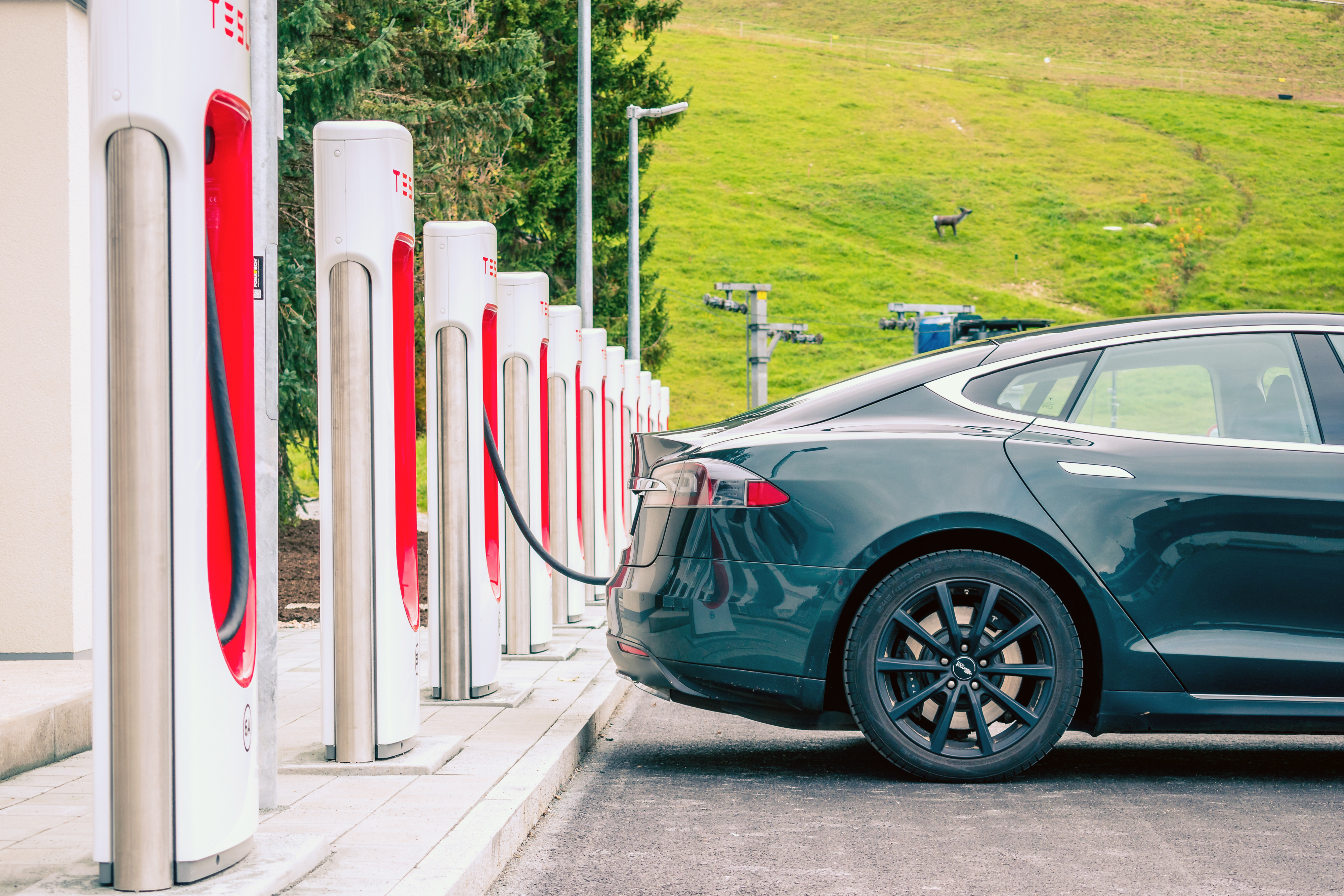 A Tesla Model S charging at the Supercharger station in Flachau, Salzburger, Austria.